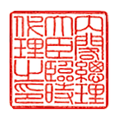 Acting_Prime_Minister_seal